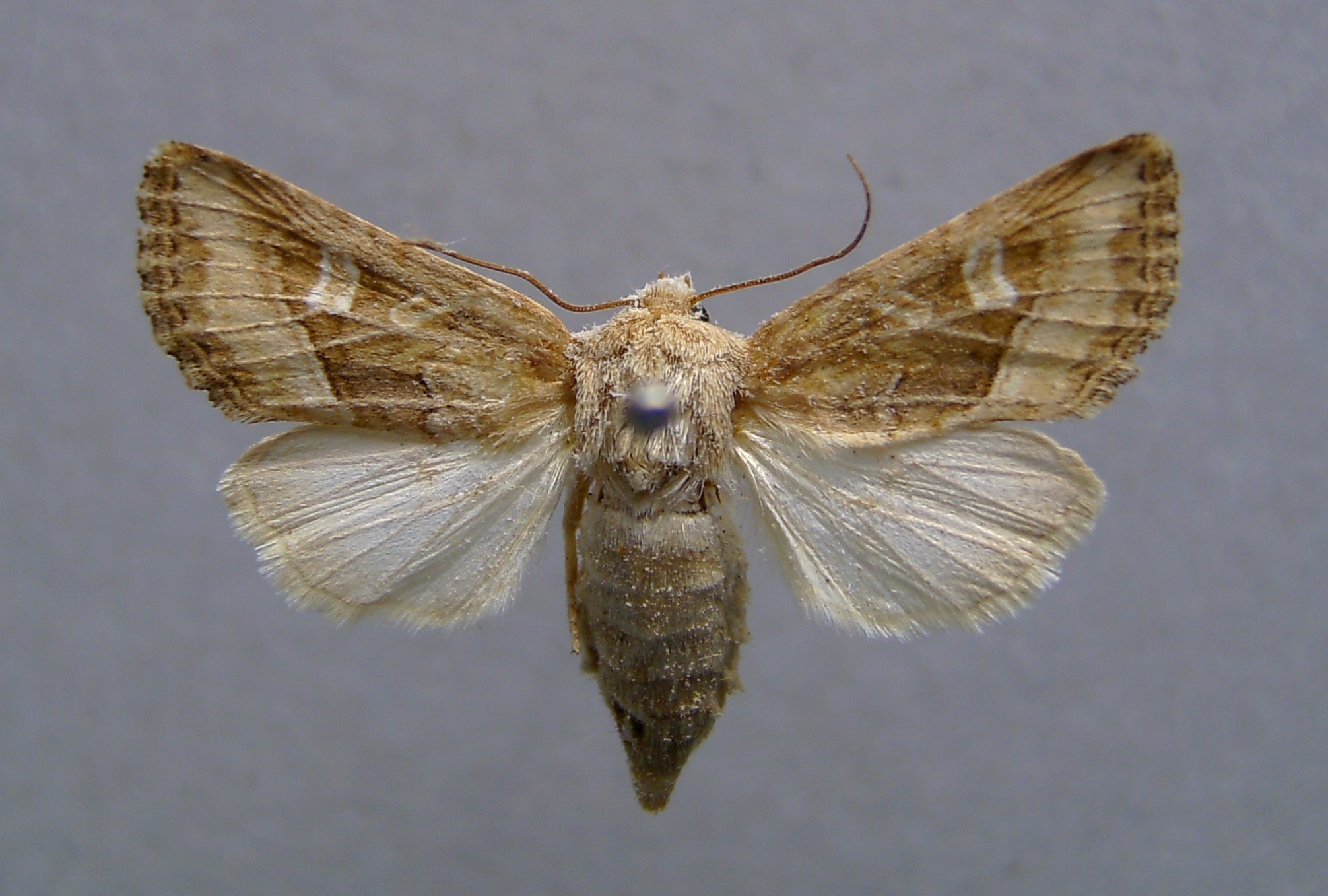 Luperina dumerilii, female, Pula, Croatia